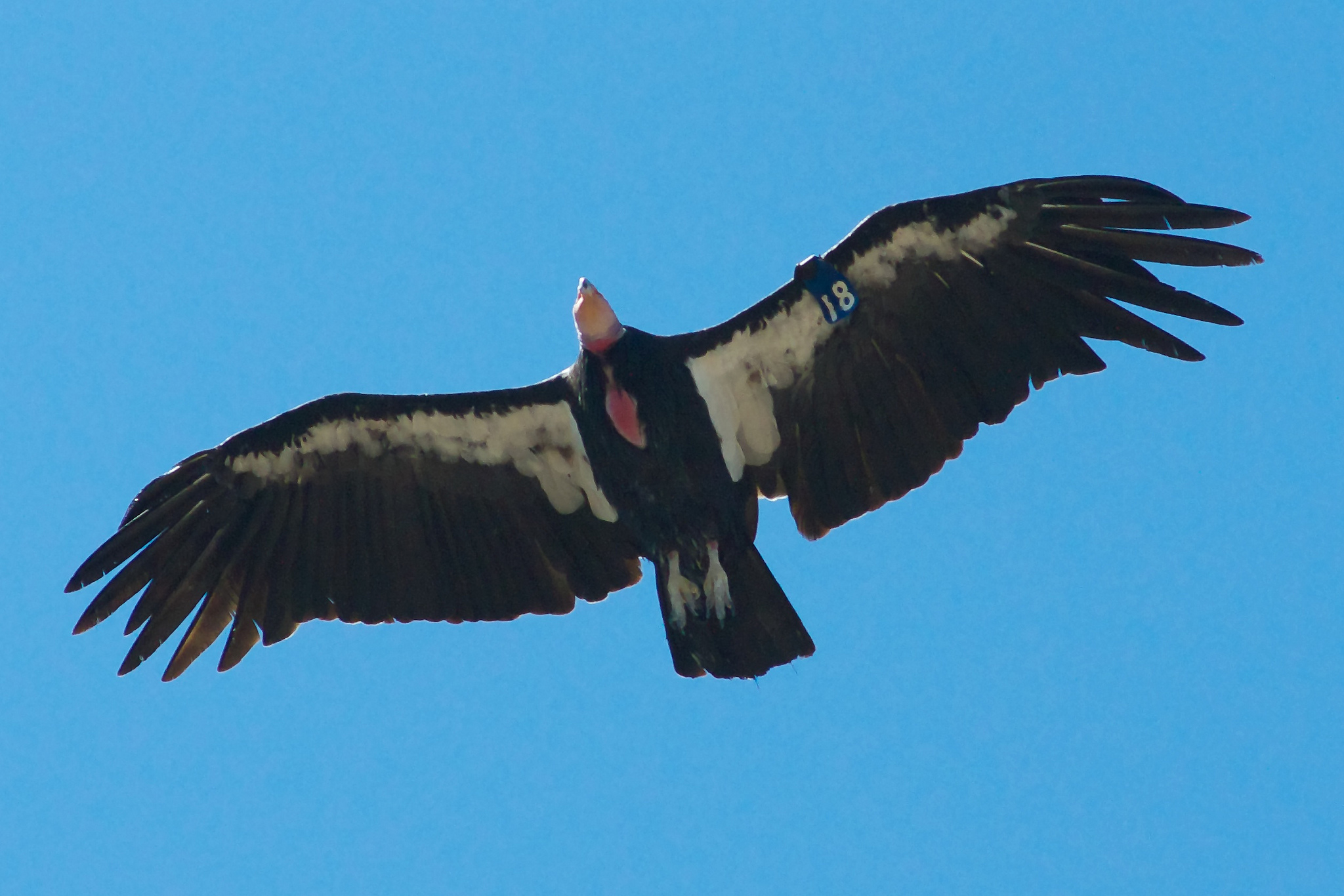 California Condor Gymnogyps californianus, adult. Pinnacles National Monument, California. Sony DSLRA-700, Minolta 80-200 f/2.8 HS (G)